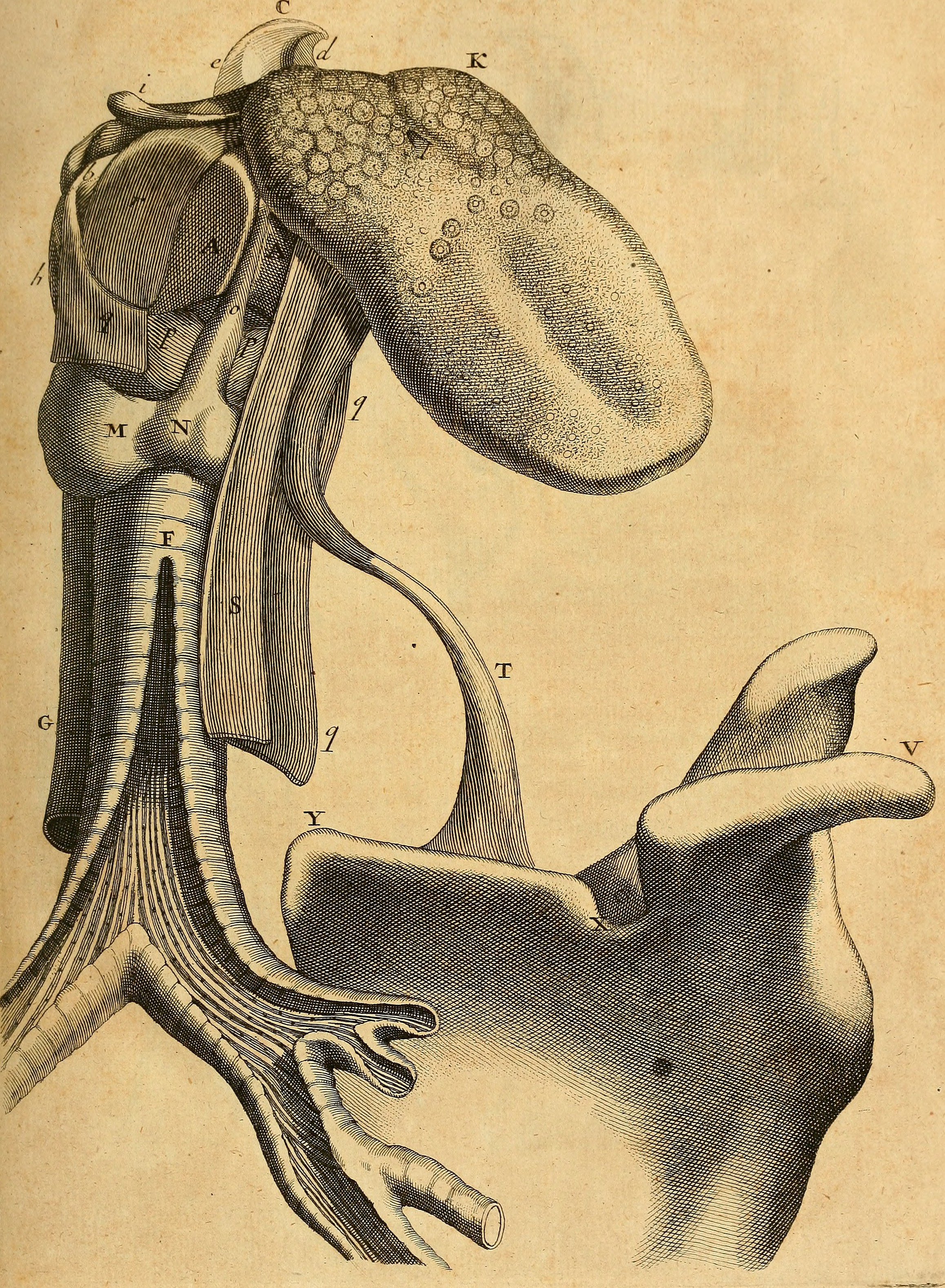 Title: Joannis Baptistae Morgagni ... Adversaria anatomica omnia : quorum tria posteriora nunc primùm prodeunt, novis pluribus aereis tabulis, & universal accuratissimo indice ornata. Opus nunc vere absolutum, inventis, & innumeris observationibus, ac monitis refertum, quibus universa humani corporis anatomie, & ... res medica, & chirurgica admodum illustrantur Year: 1723 (1720s) Authors: Morgagni, Giambattista, 1682-1771 Manget, Jean-Jaques, 1652-1742. Theatrum anatomicum Lancisi, Giovanni Maria, 1654-1720 Volpi, Giovanni Battista Dolbeare, Benjamin, former owner. med Clarke, William, former owner. med Subjects: Anatomy Pathology Human anatomy Pathology Publisher: Lugduni Batavorum : Apud Johannem Arnoldum Langerak Text Appearing Before Image: ~ limbo ^ fibra tendinea firmato. h, h. b. Valvularum fibra carnete quarum aliquot ad Corpufcula perti»gunt.. €.. c. Arteriajnm coronariarum initia. FiGURA IV. demonftrat penem paulbinterius a corpore abfcilTum,& ferme refupinatum , ut in aperta urethra hujus Foramina, fci^excretoria peculiarium canaliculorum ofcula , aliaque hujufmodiconfpici queant : Sufpcnforium quoque ejufdem penis ligamen-tum, continuatamque huic tunicam , nec non Sebaceas coronceglandulas r.pra^fcntat» A:.A..Spongiofim urethr^ corpus fecundmn ejus longitudinem inferins cum tota urethra per medium difciffum .y ^ ad latera utrinque di. ducium-y ut confpici interna. urethrte. facies poffit.y X^ in hac primum ab i^teraB: ufque adG. Majora quadam peculiaria Foramina in media fiperiore urethr^^ parte in eadem reSla linea fecundum longitudinem ejus difpofita eo ■. loco^i numero ^ figura ^ ac magnitudine qua in hoc cadavere confpC^ £fa fmit. Uf vero unus faltem ex ^CanalicuIis qui fmguUs Forami- nibui TAIV 1 Text Appearing After Image: xab. II. ^^